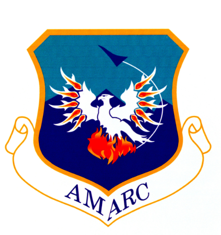 Aerospace Maintenance and Regeneration Center emblem